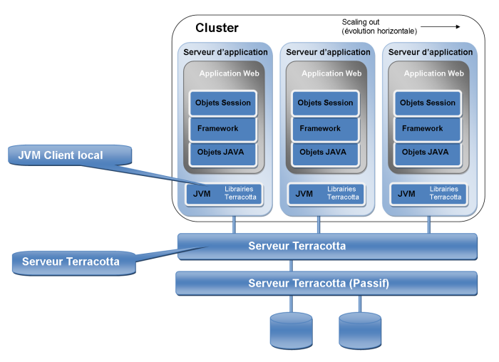 Terracotta architecture